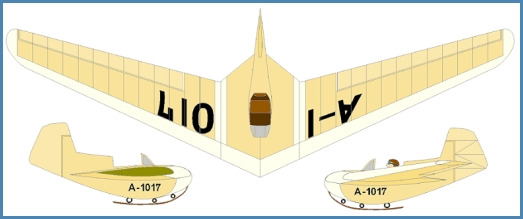 Kayaba HK1